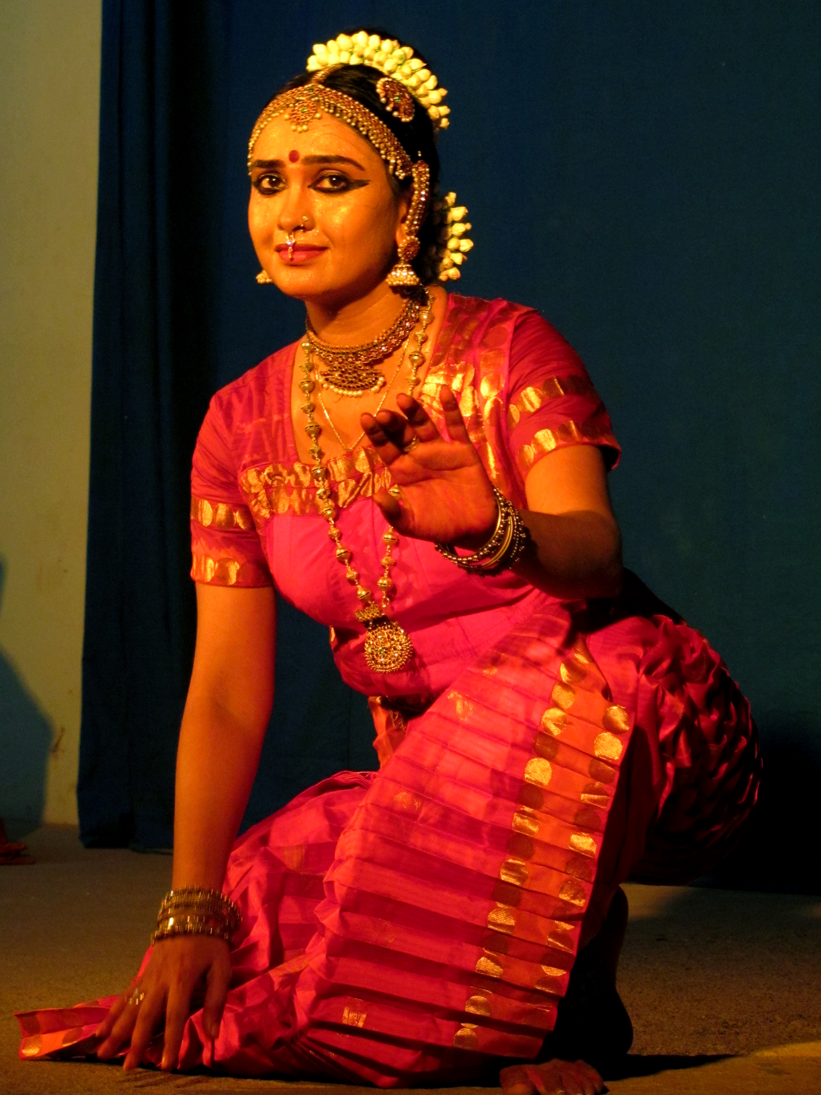 Theater performer & tV anchor Rajasree Variar performing Lankalakshmi - Bharatanatya adaptation of C. N. Sreekandan Nair's play Lankalakshmi